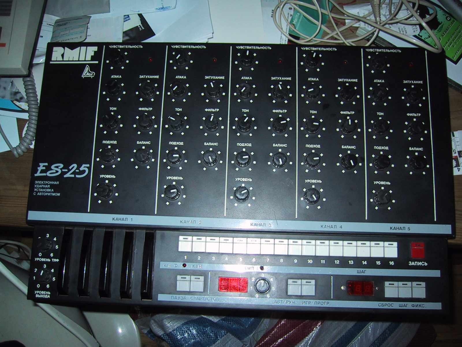 RMIF ES-2-5 - russian analog rhythm machine RIGA Musical Instruments Factory had produced about 30 models of this instruments experimentally in 1991.